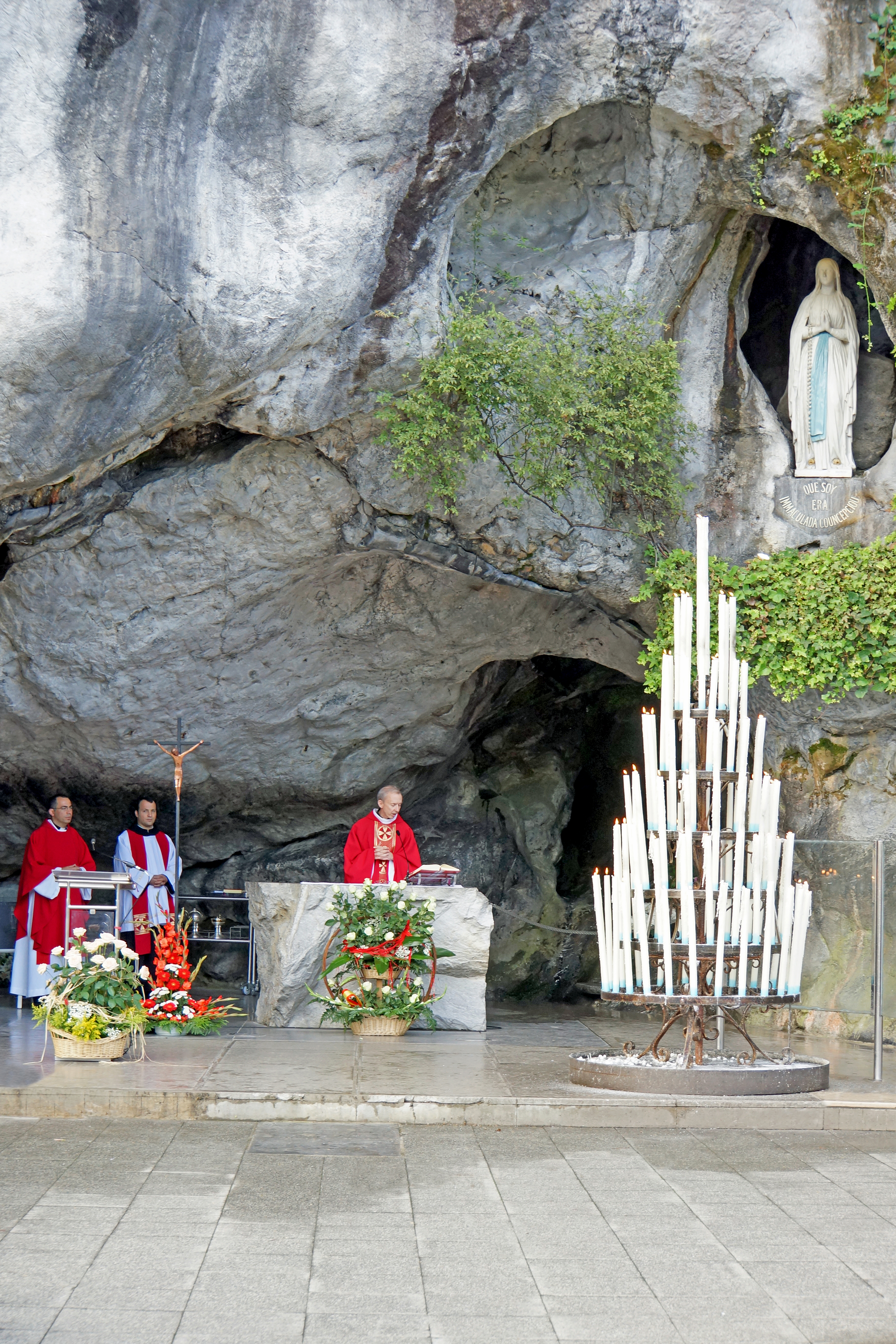 PLEASE, NO invitations or self promotions, THEY WILL BE DELETED. My photos are FREE to use, just give me credit and it would be nice if you let me know, thanks. The grotto where St Bernadette's visions took place is very simple and stark. Above the main recess is the niche where the apparitions took place and Fabisch's 1864 statue of Our Lady of Lourdes now stands. There are six official languages of the Sanctuary: French, English, Italian, Spanish, Dutch and German.